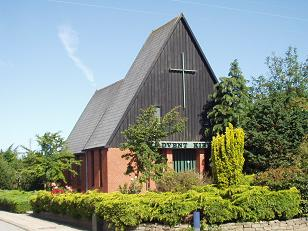 Jerslev Seventh-day Adventist Church, outside